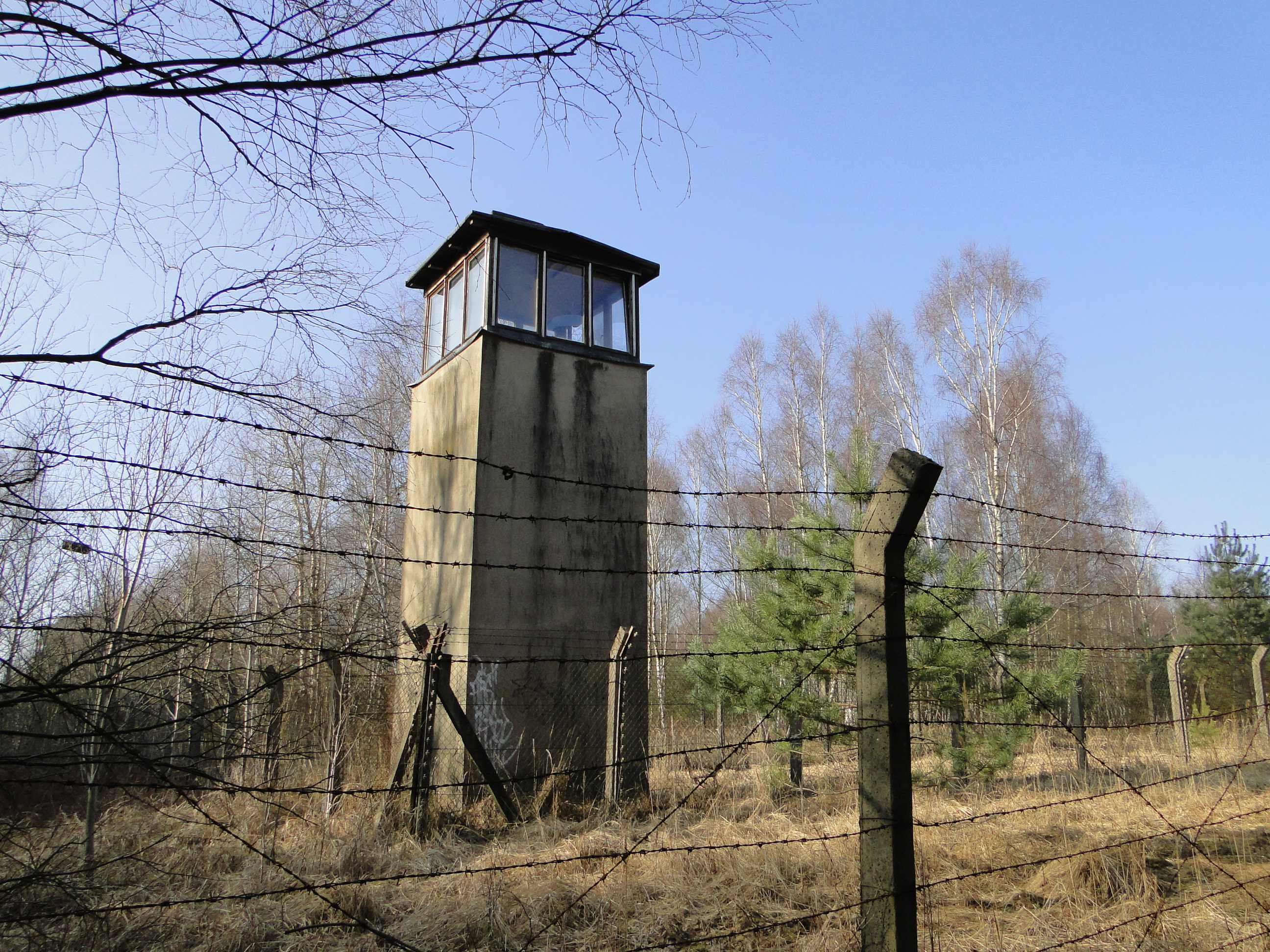 Former central depot of police of the German Democratic Republic with watchtower in Bossow, district Güstrow, Mecklenburg-Vorpommern, Germany